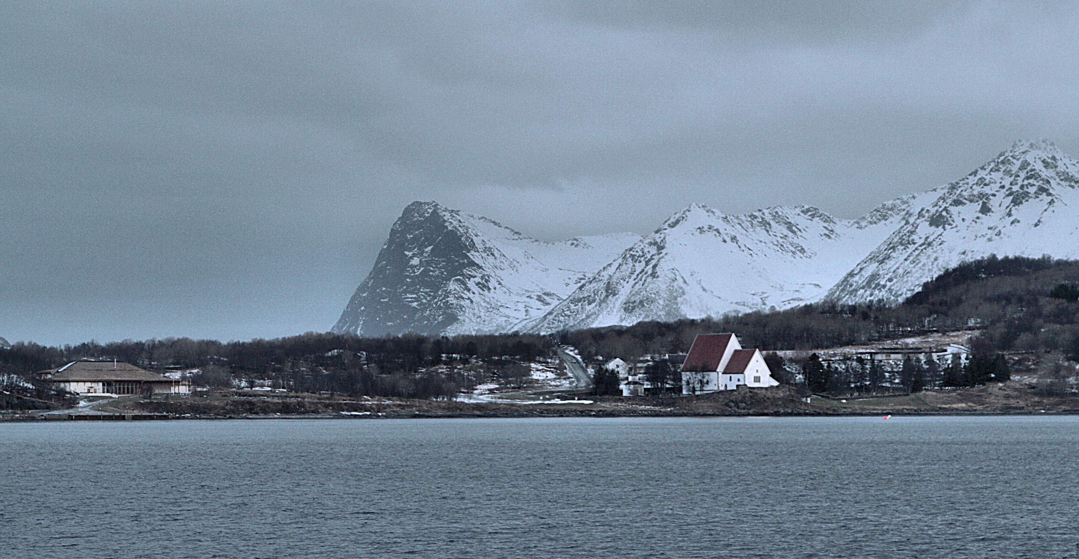 Medieval church of Trondenes near Harstad, Norway. winter 2005-2006